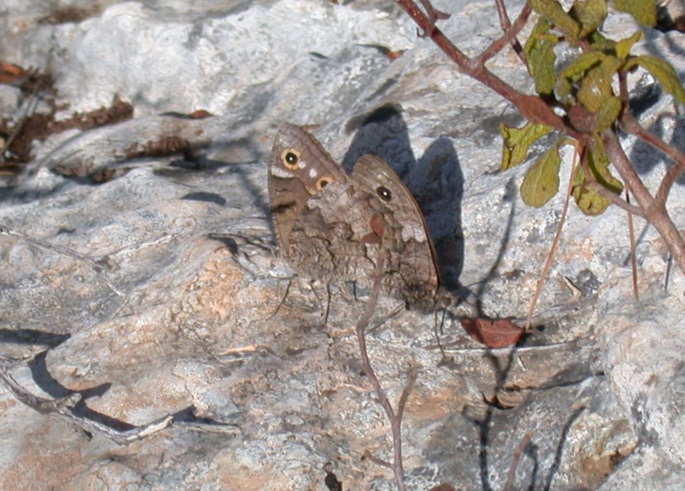 Mating couple of Hipparchia fatua sichaea Lederer, 1857 (סטירית עמומה), Mount Carmel, Israel, October 20, 2007.